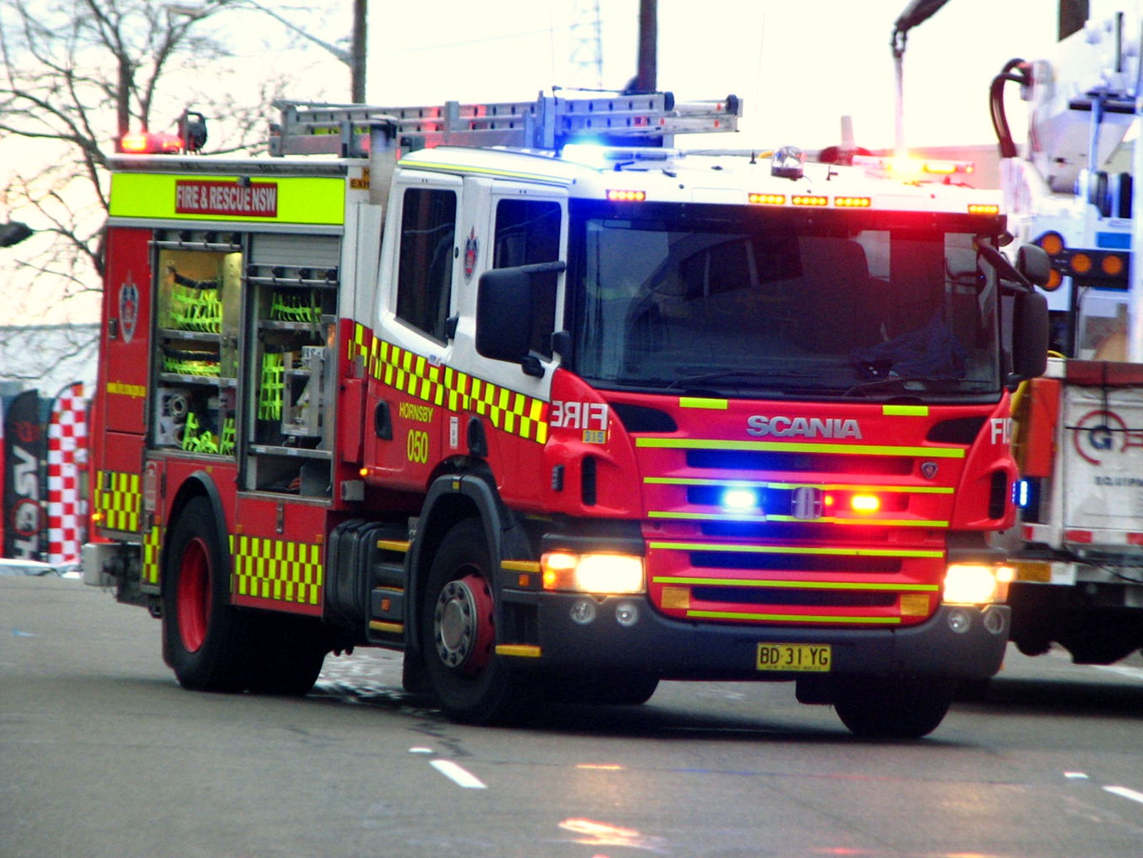 NSWFB Scania Hornsby 050